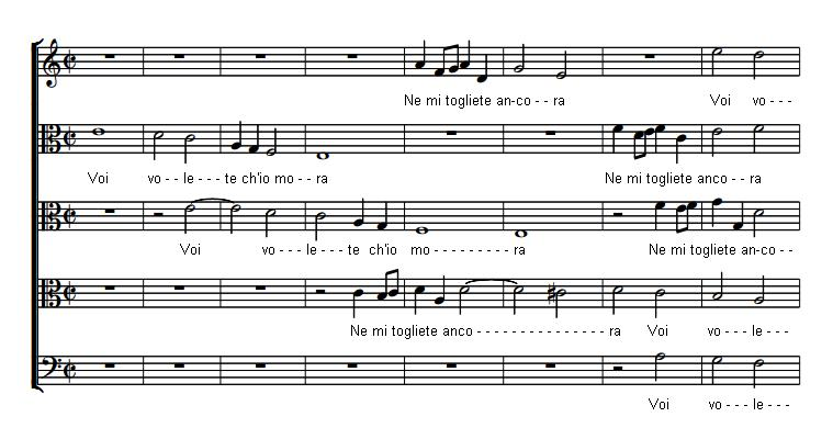 Gesualdo - "Voi volete ch'io mora"